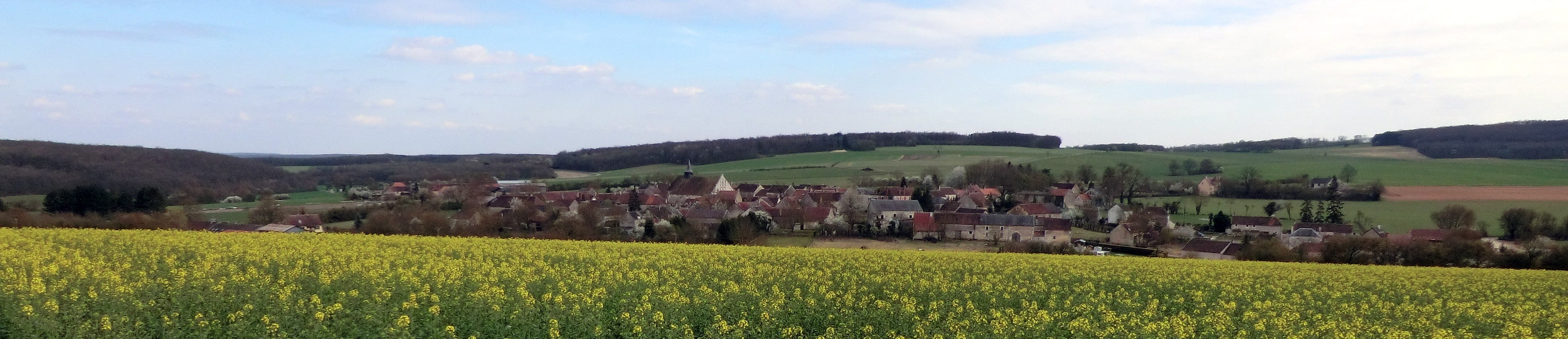 View of Sougères-en-Puisaye (2012).